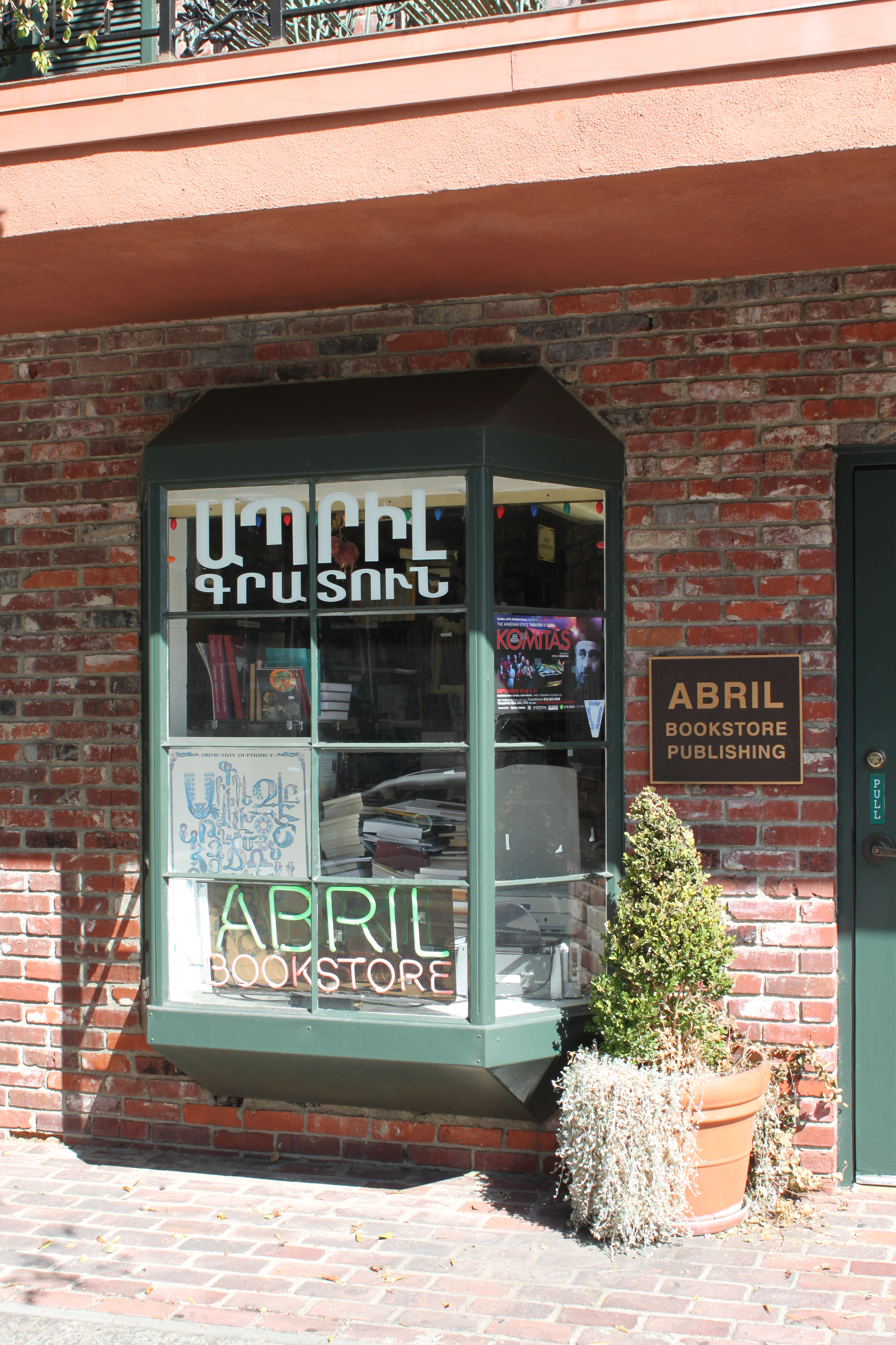 Abril Bookstore, Glendale, CA, USA. Left window with Armenian name.